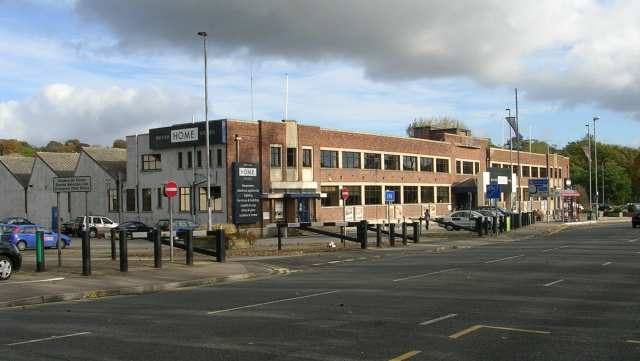 British Homes Stores - Bridge Road, Kirkstall The premises were previously occupied by Clover.